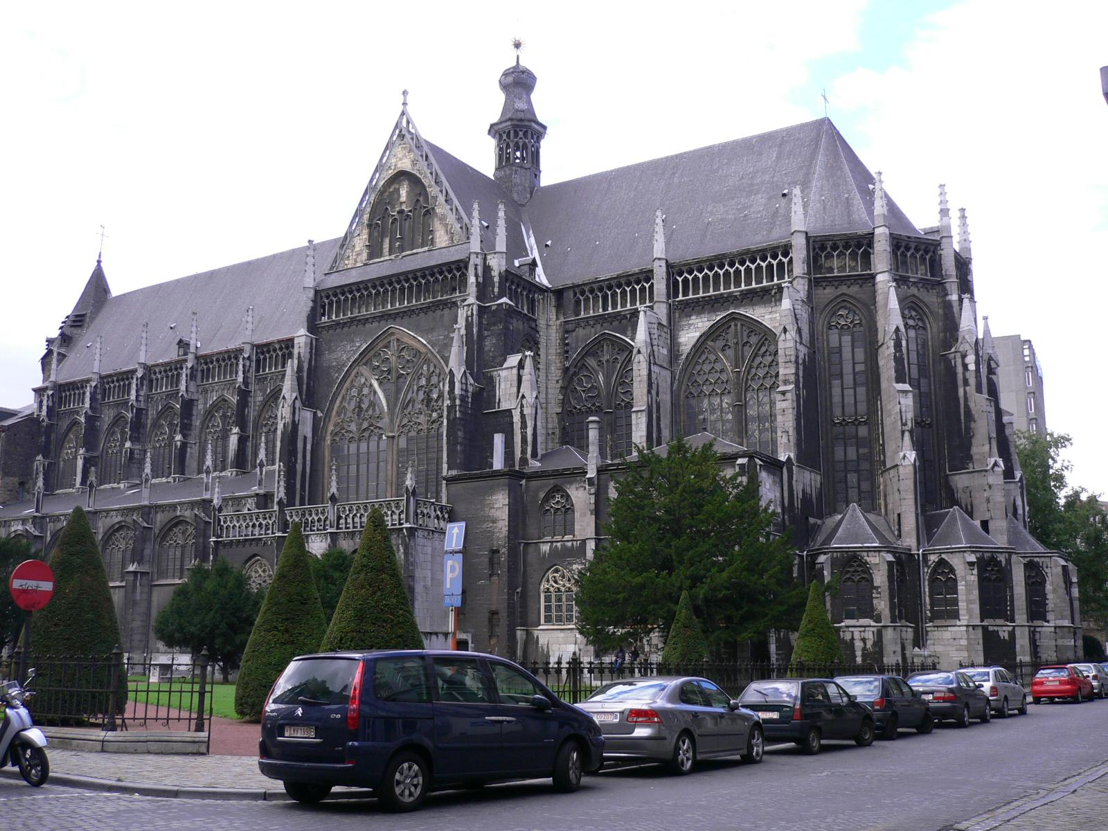 Liège - Saint-Jacques church